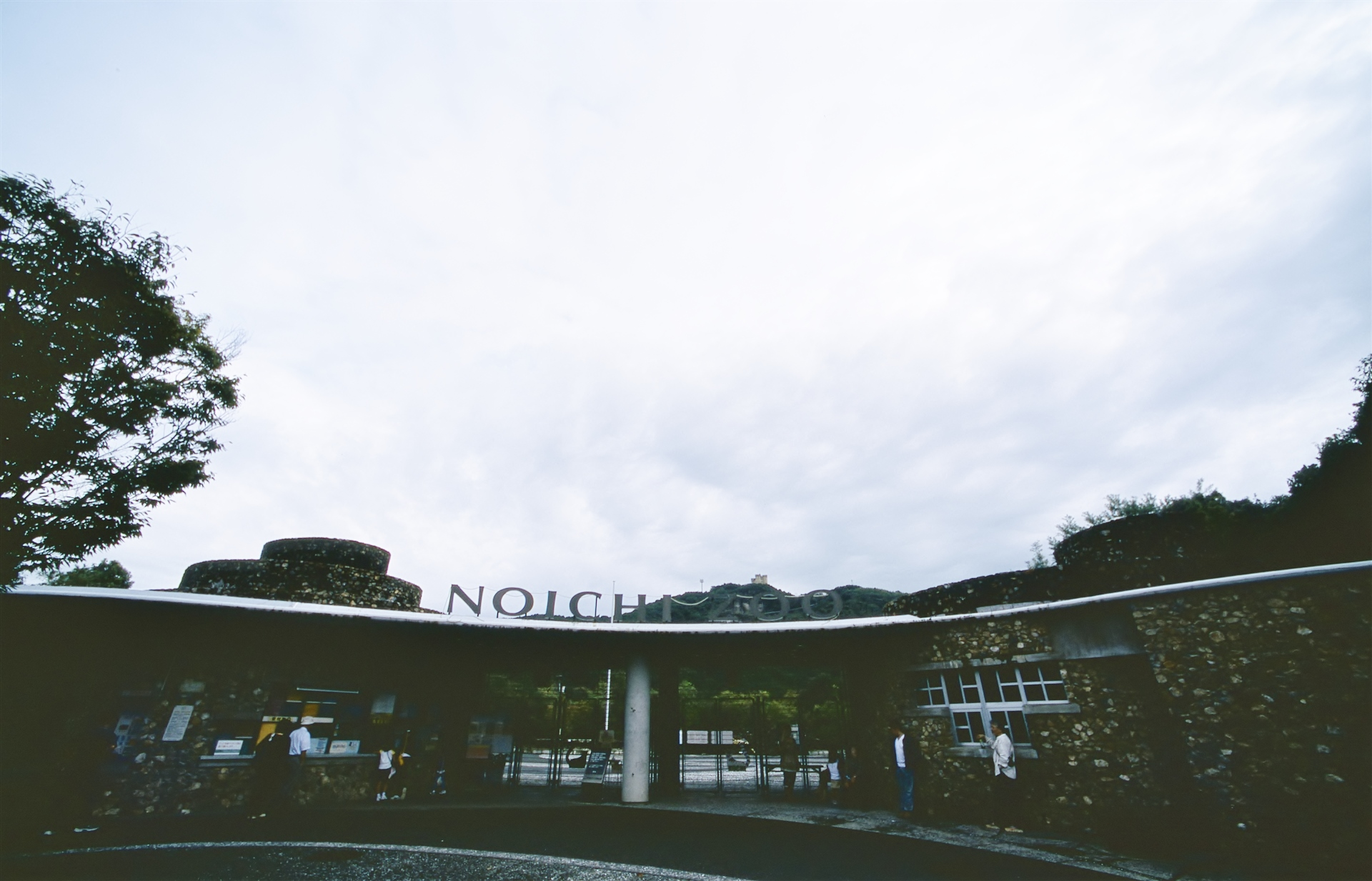 Noichi Zoological Park of Kochi Prefecture. Japan.